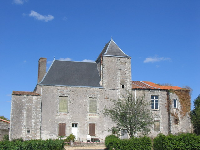 Vrillère castle, Châteauneuf-sur-Loire